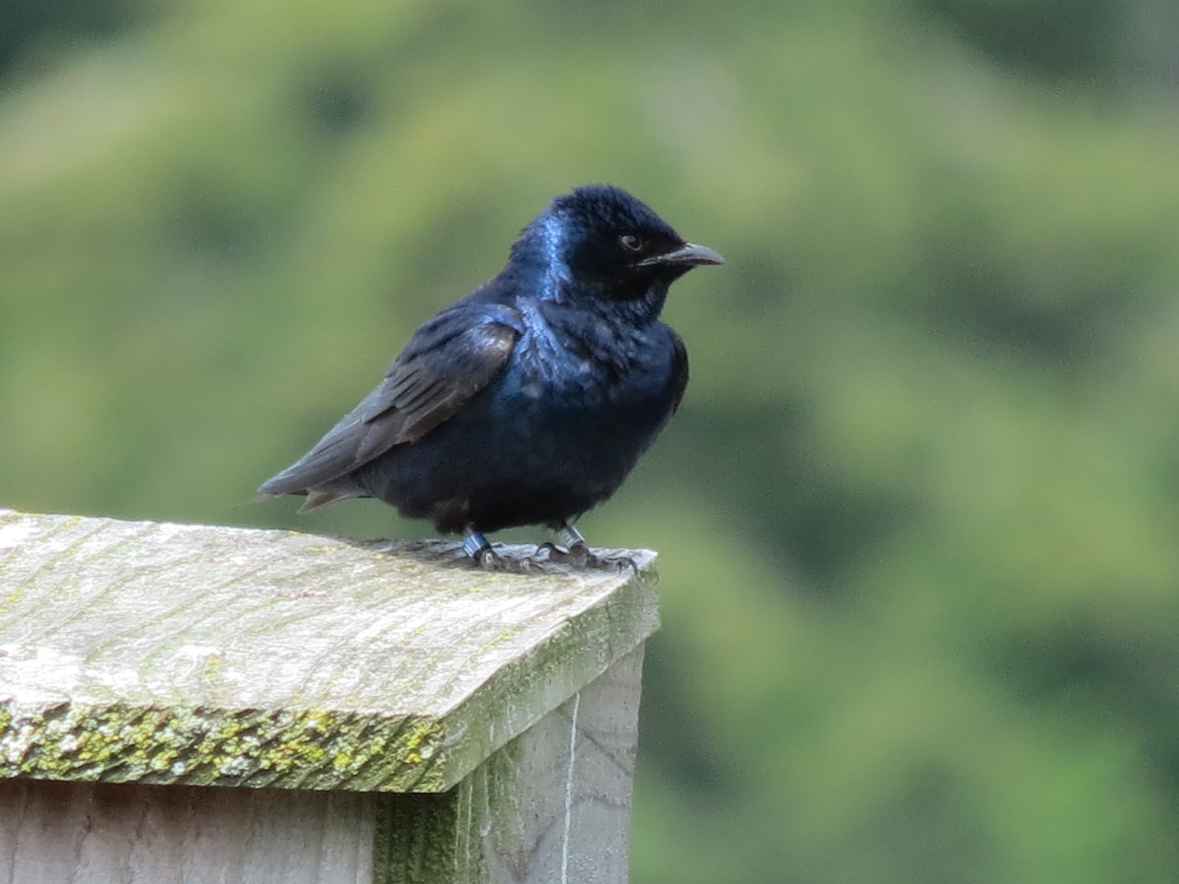 Purple martin nesting colony at Ford Cove Marina, Hornby Island, BC, Canada